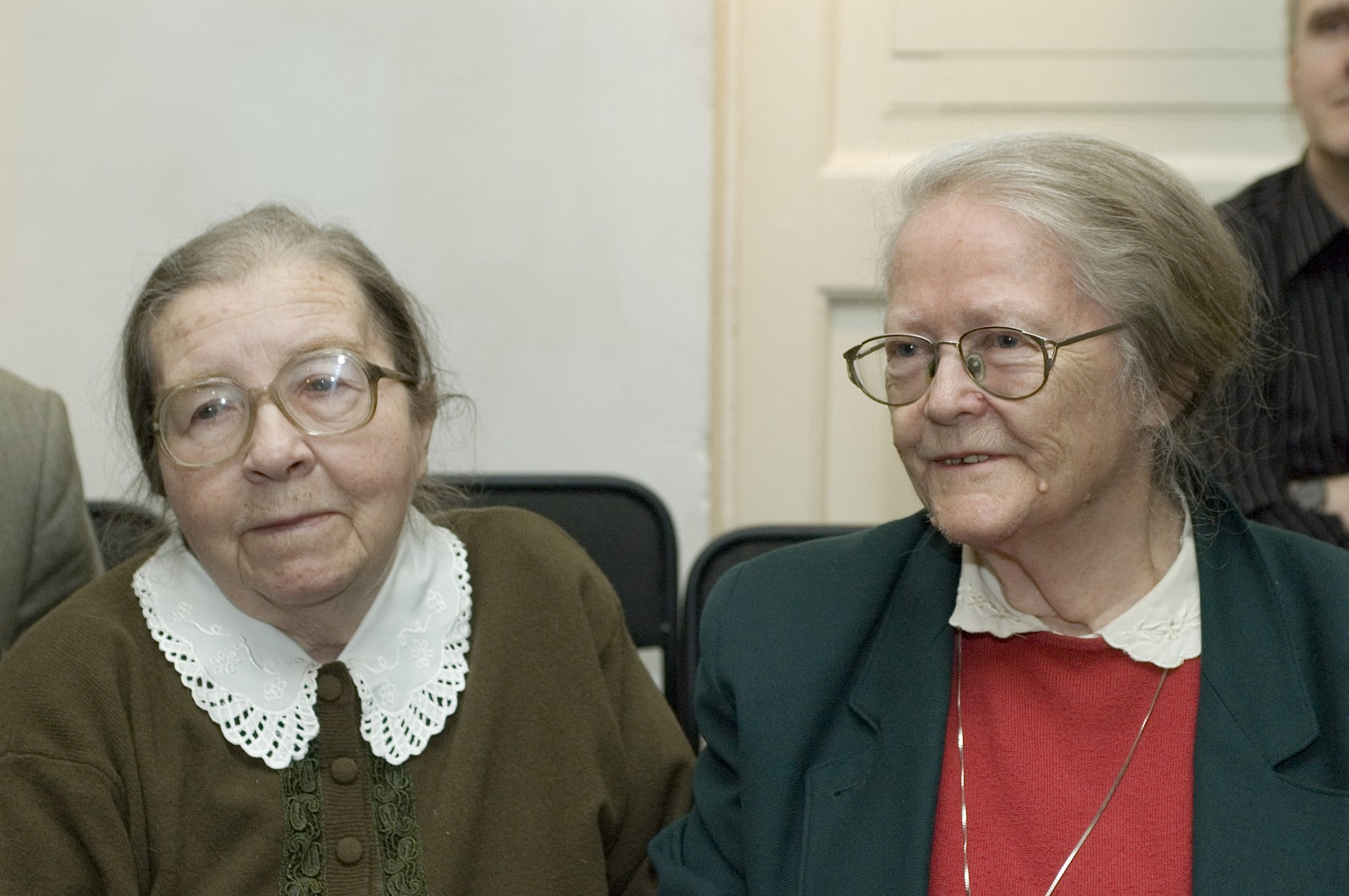 Varvara Svetlaeva and Elena Zemskaya in " Bulgakov's House " - Relatives of Bulgakov